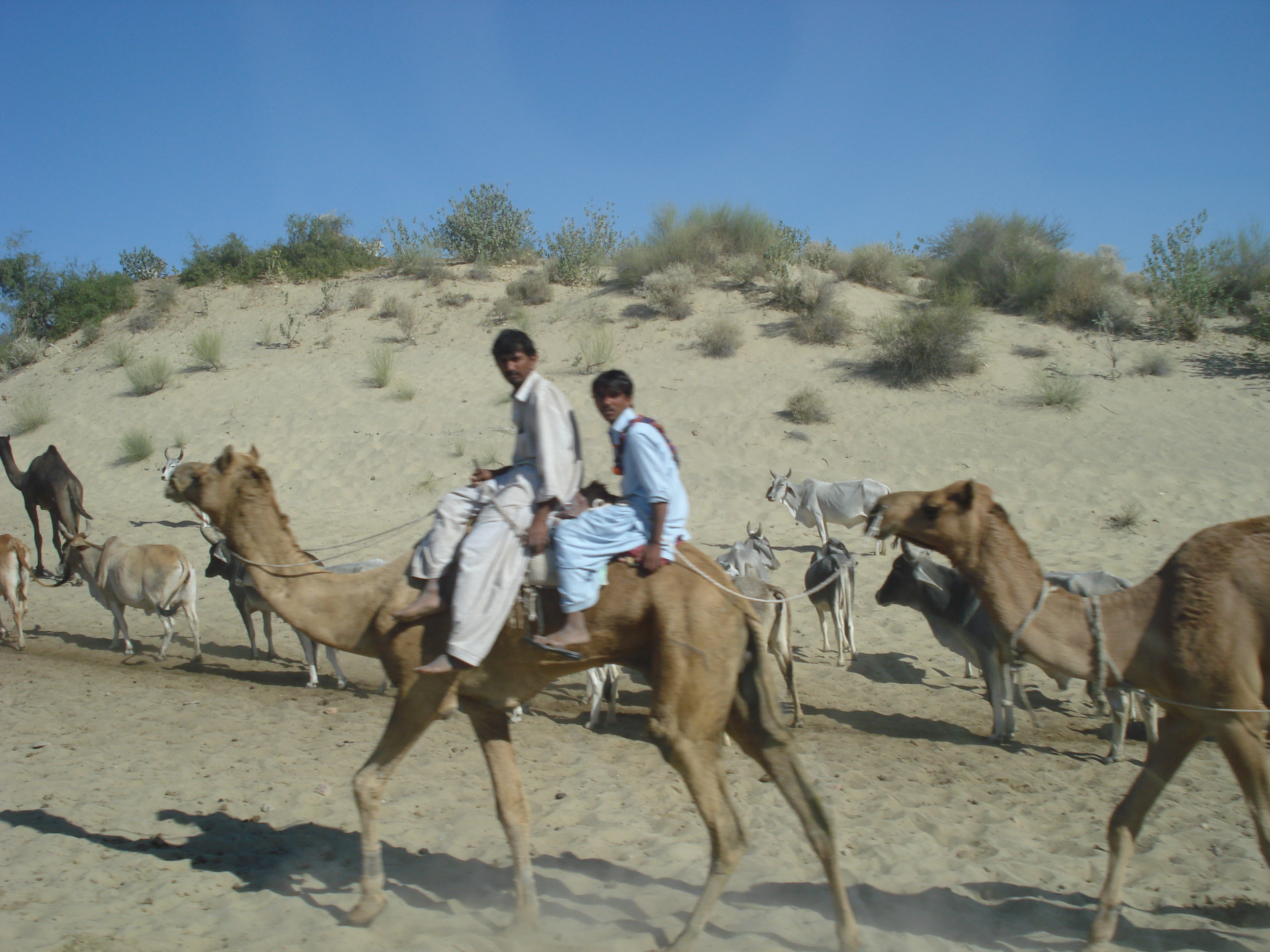 Herders on camels taking their cattle for grazing in Tharkparkar, Sindh